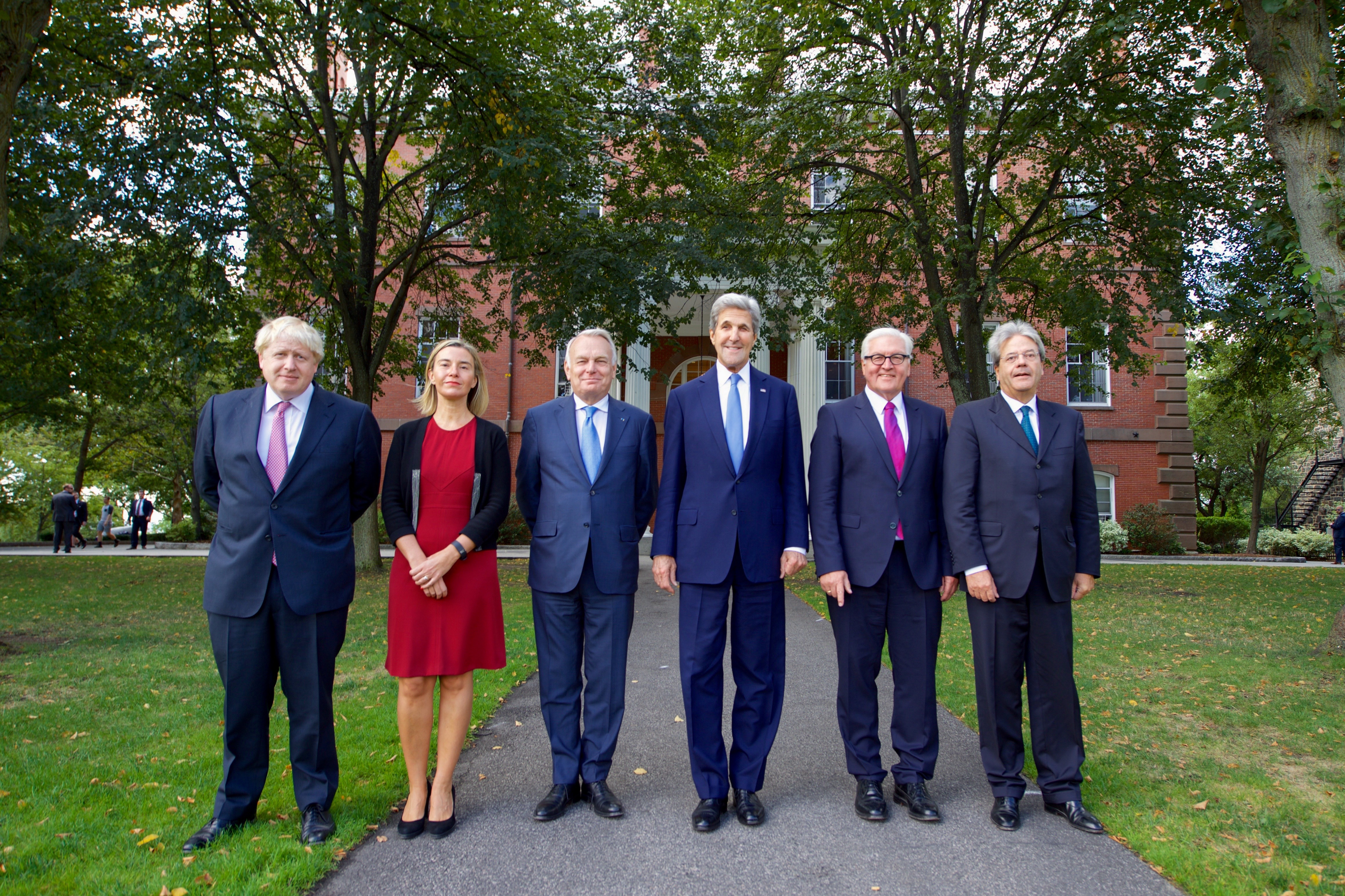 U.S. Secretary of State John Kerry poses with the Foreign Ministers from the United Kingdom, France, Germany, Italy, and the European Union, on the campus of Tufts University in Medford, Massachusetts, on September 24, 2016, before a meeting of the so-called Quintet in the Secretary's home-state of Massachusetts. [State Department photo/ Public Domain]